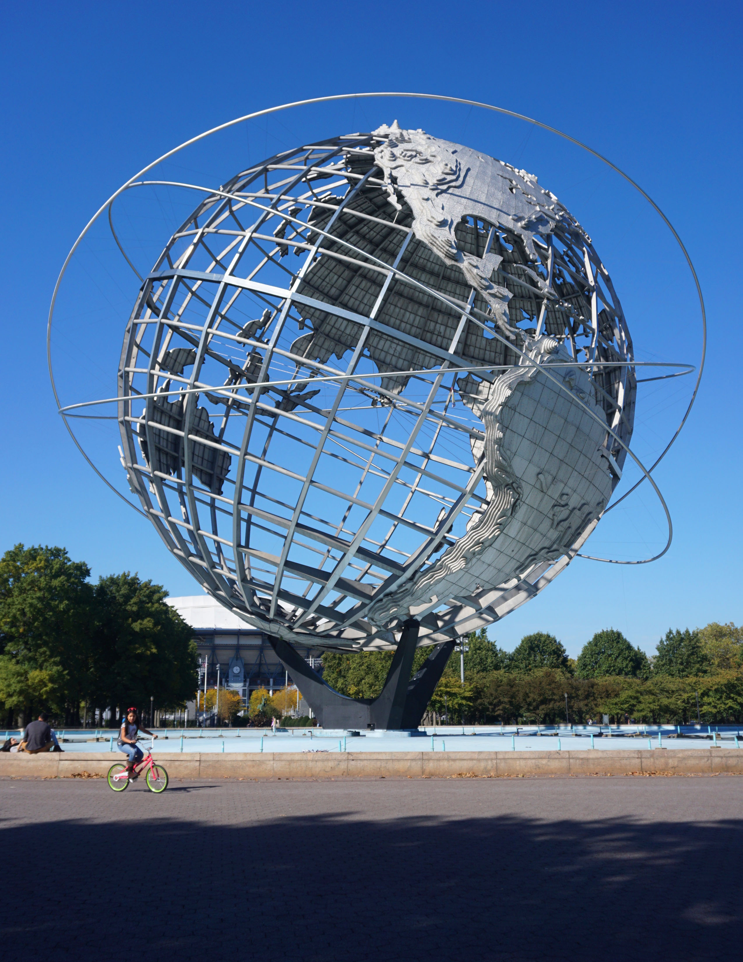 The Unisphere. This image I captured on a crystal clear day and it portrays with clarity of this Spherical Stainless Steel representation of the Earth. Sculpture from 1964-65 World's Fair.